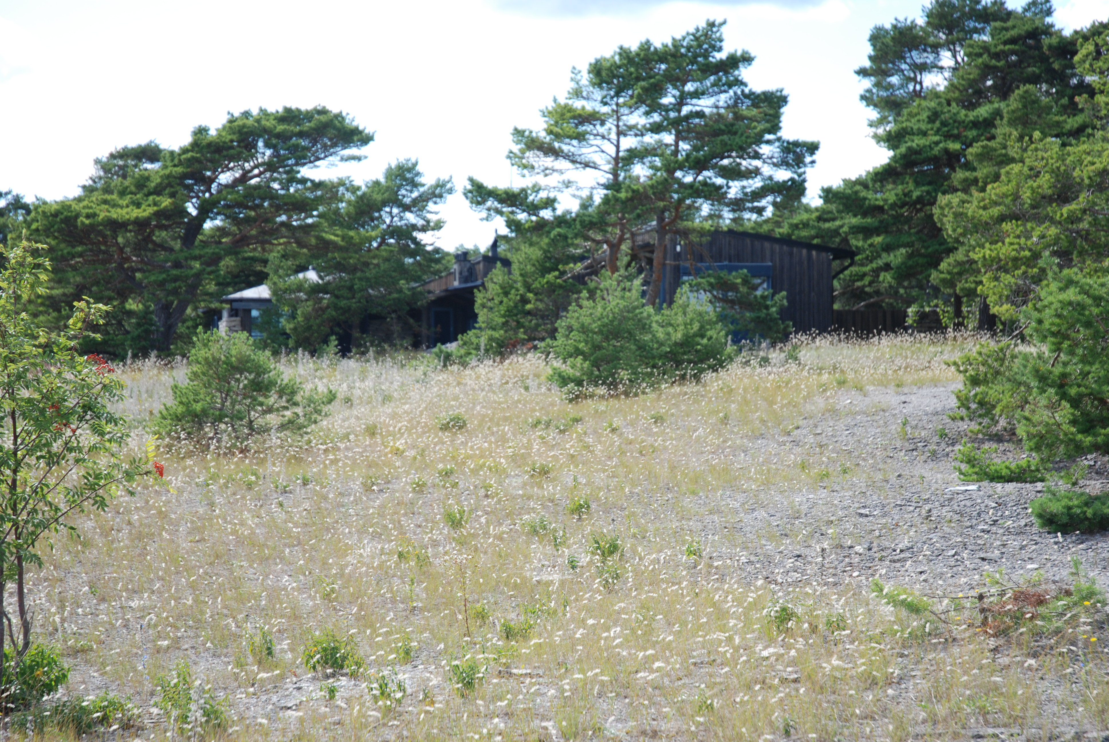 Ingmar Bergman's residence at Hammars in Gotland